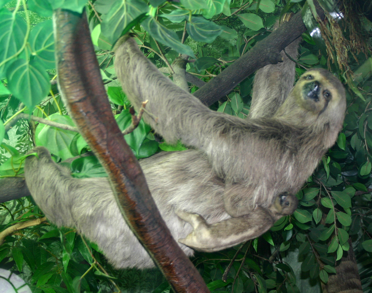 The Natural history museum in Milan, Italy. Diorama with a Bradypus tridactylus. Picture by Giovanni Dall'Orto, April 22 2007.